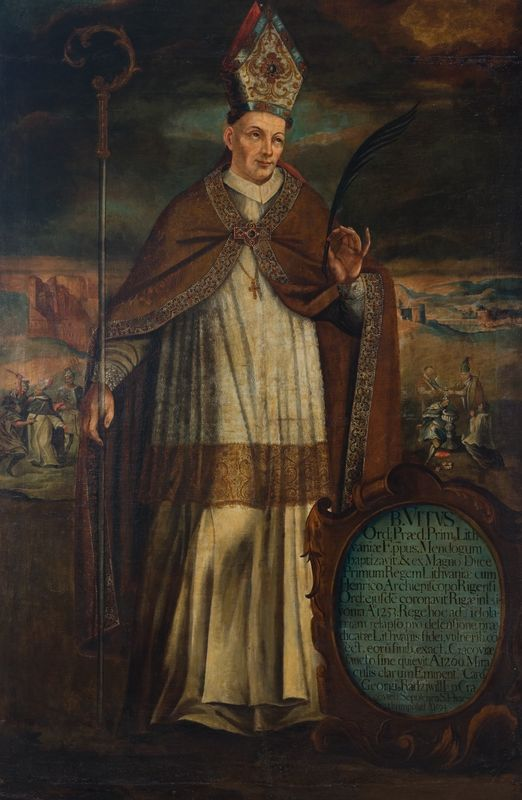 Blessed Vitus of Lithuania, the first legal bishop on the territory of modern Belarus